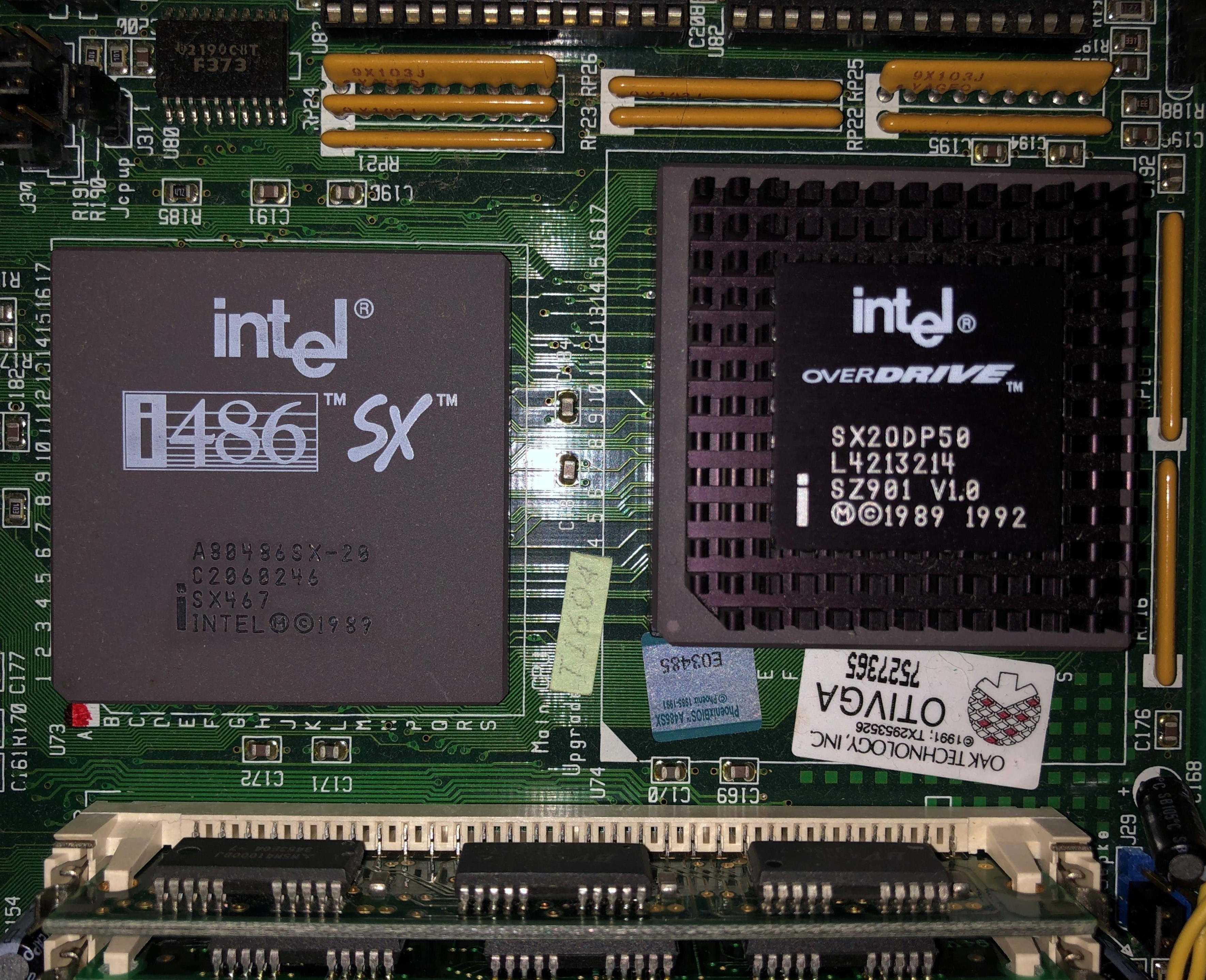 A picture of my Packard Bell Legend 610, featuring its Intel 80486SX CPU, along with its Intel 80486SX-2 OverDrive upgrade processor.